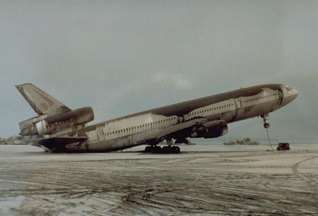 A McDonnell-Douglas DC-10 owned by World Airways rests on its tail due to heavy ashfall deposited by the eruption of Mount Pinatubo in 1991